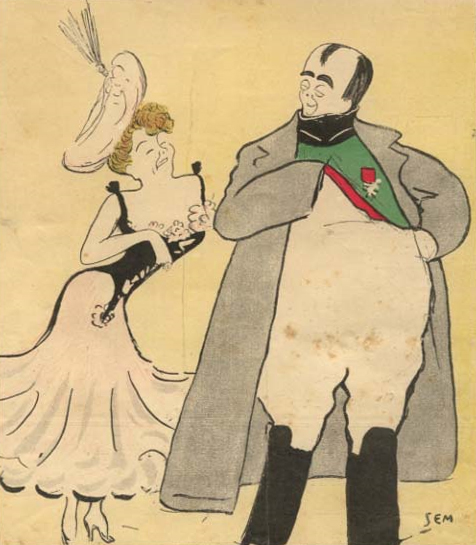 Caricatures of Juliette Méaly and Albert Brasseur, cover of Le cri de Paris, 1901